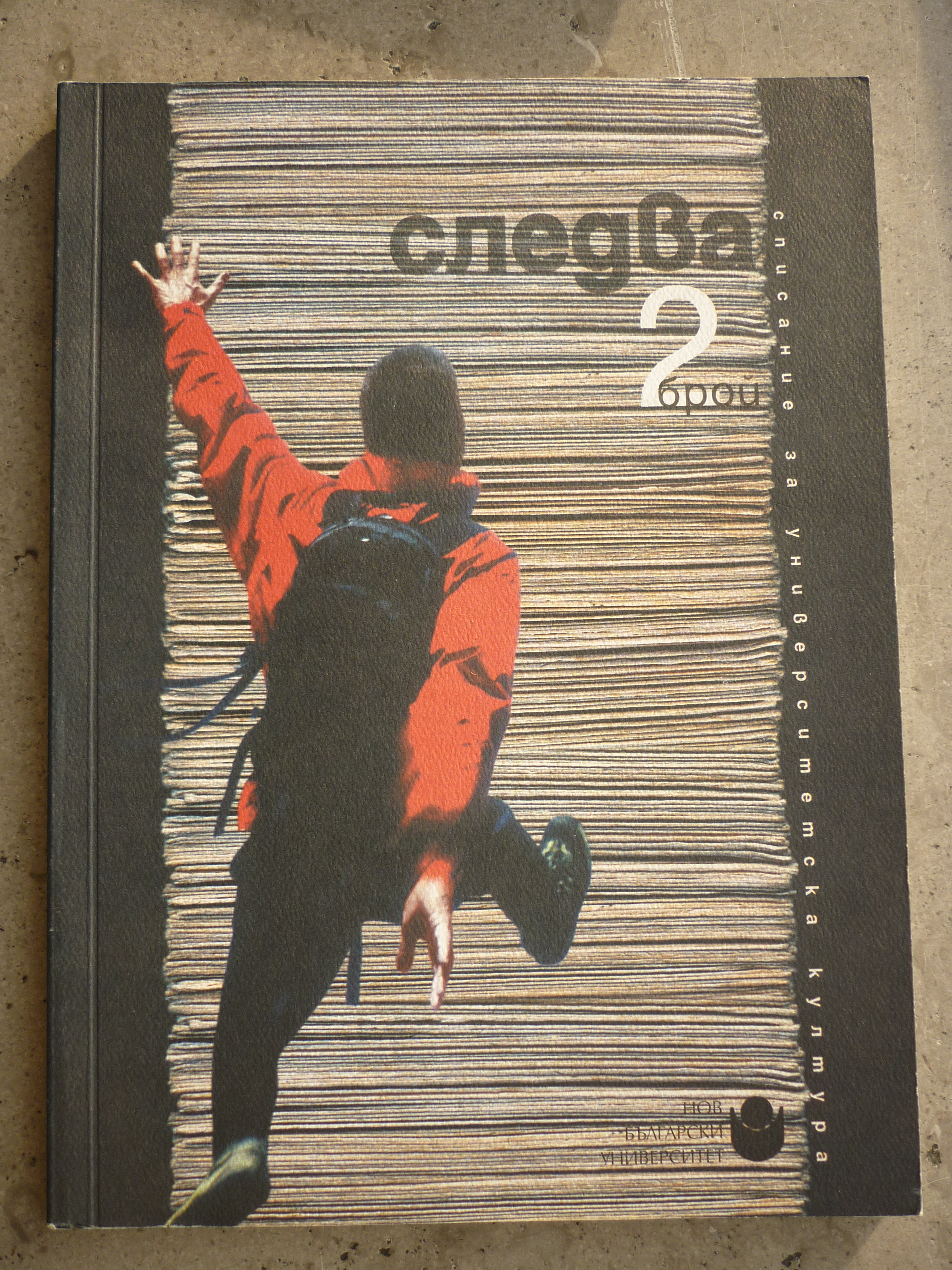 Cover of the second issue of „Sledva“ magazine.